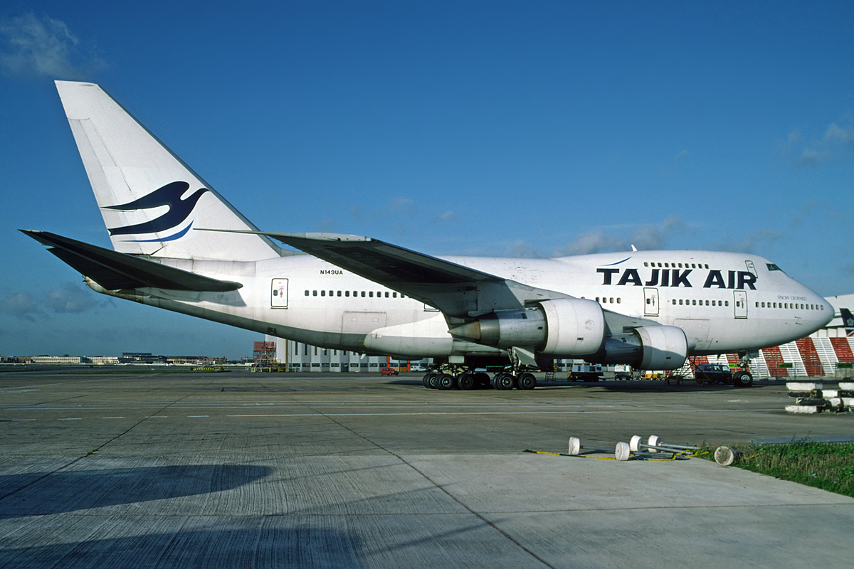 Tajik Air Boeing 747SP (N149UA) at London Heathrow Airport